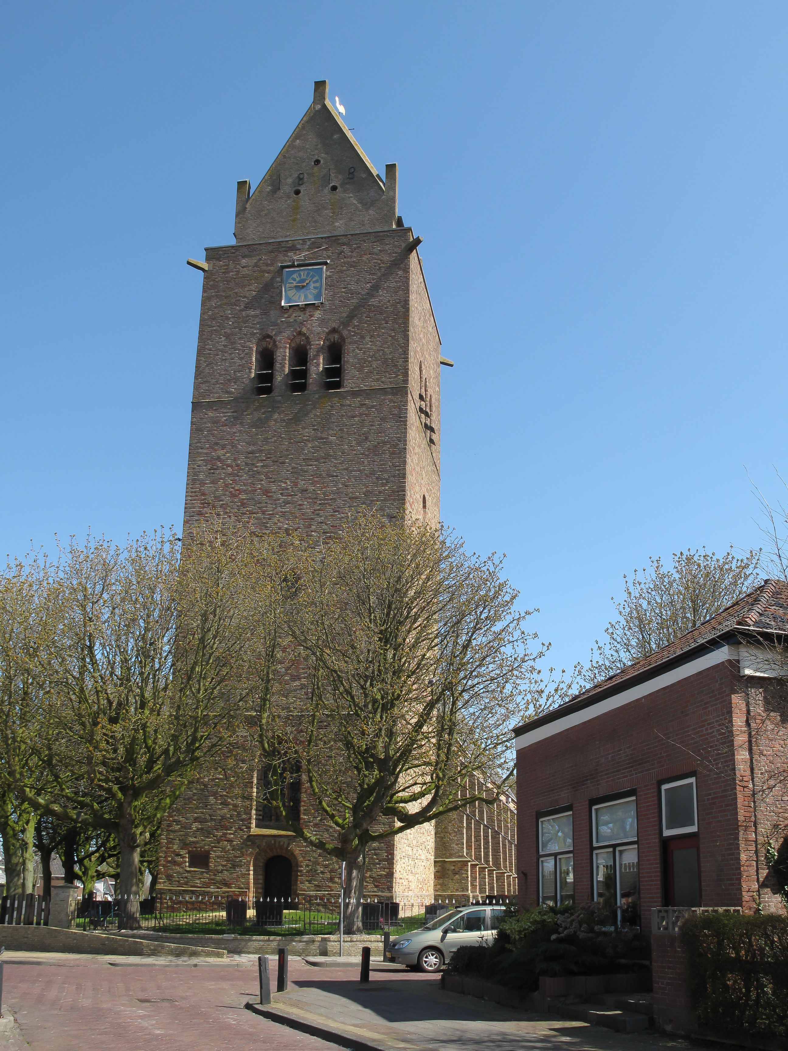 Minnertsga, church:de Meinandskerk